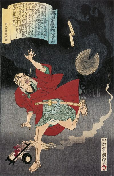 Okuri-hyōshigi, from the Honjo-nana-fushigi, Woodblock print (nishiki-e); ink and color on paper